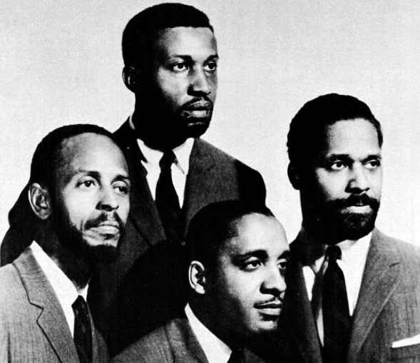 A group photo of the Modern Jazz Quartet, which was used in a trade ad for their album Collaboration.